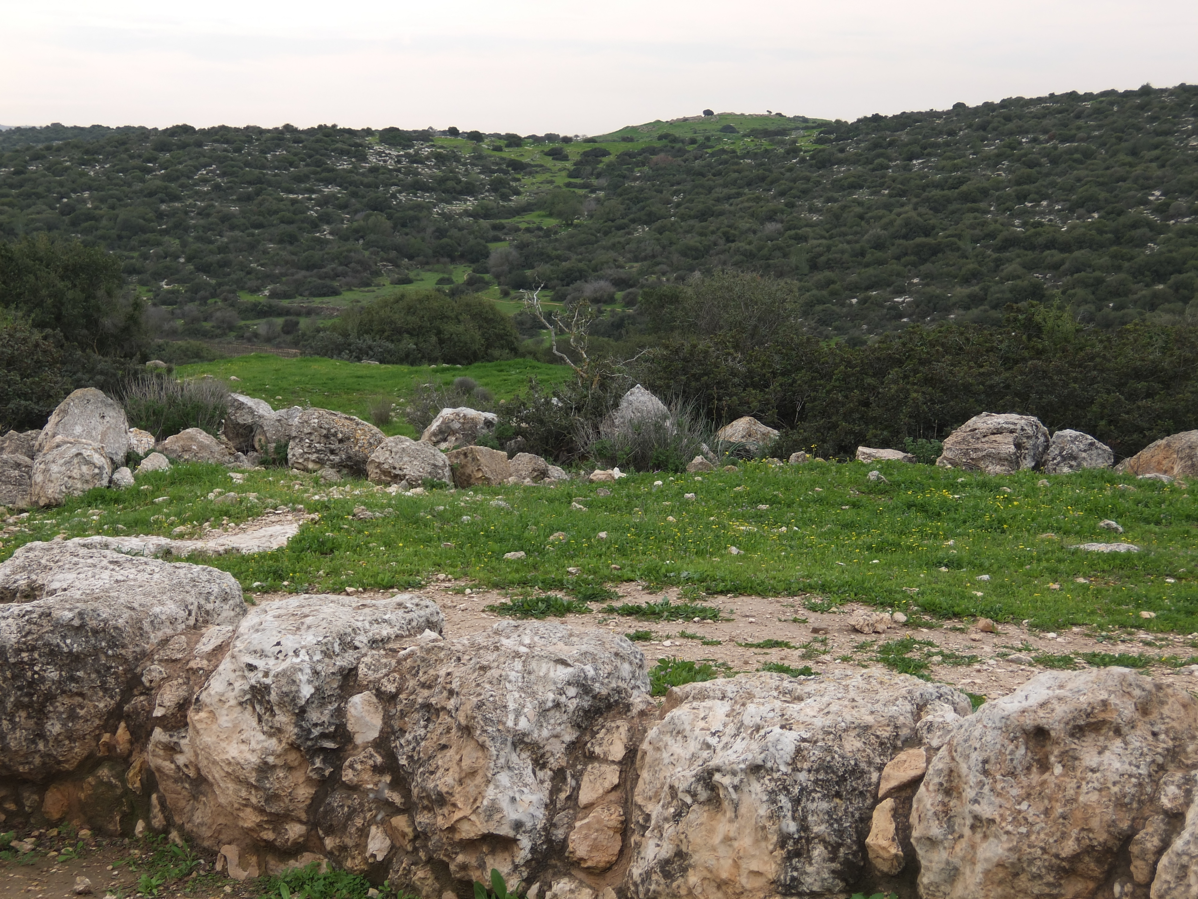 Hurvat Itri in Judaea